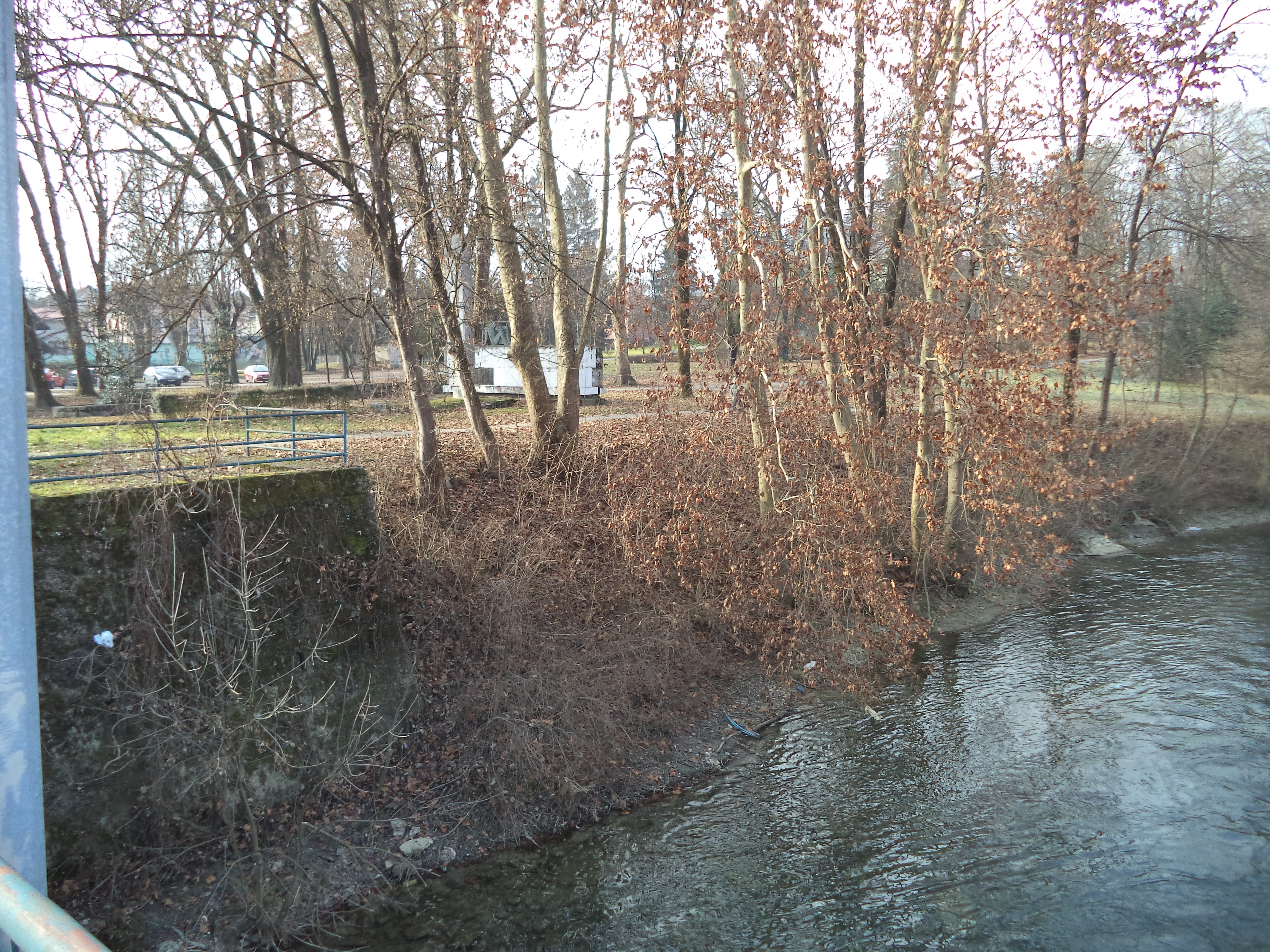 Mrežnica river in Duga Resa